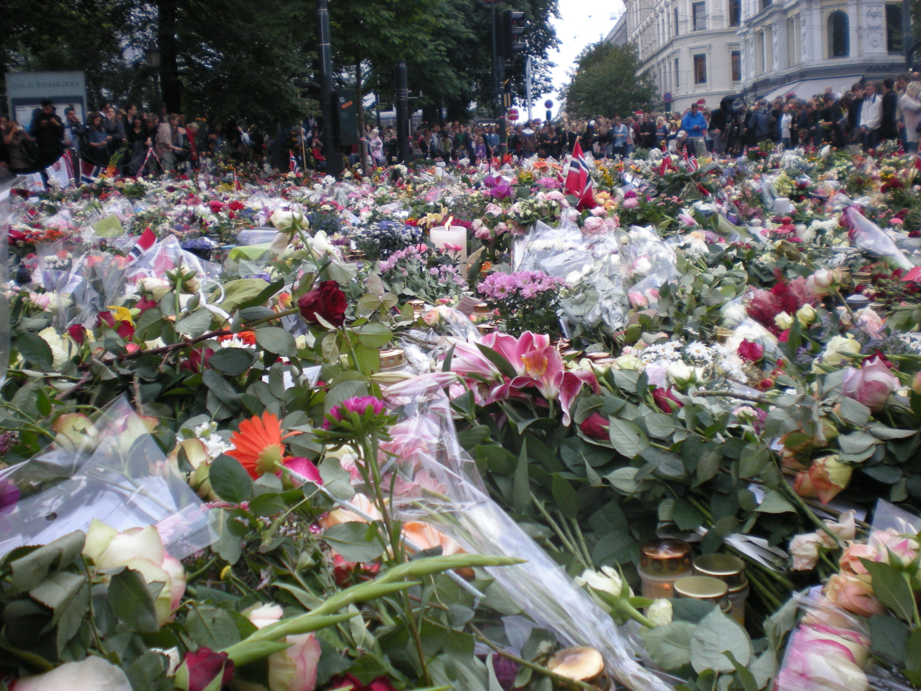 Mourners lay down flowers outside Oslo's main cathedral on 25 July 2011.